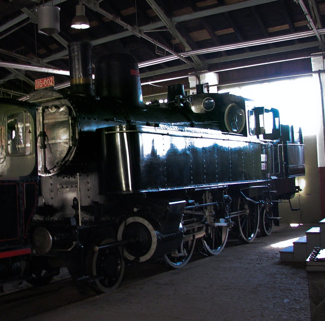 Locomotive for passenger service JDŽ 116-002 in Railway Museum of the Slovenian Railways